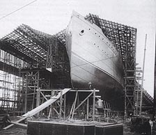 The grey-painted hull of the Carpathia rests on the slipway, awaiting the forthcoming launch.